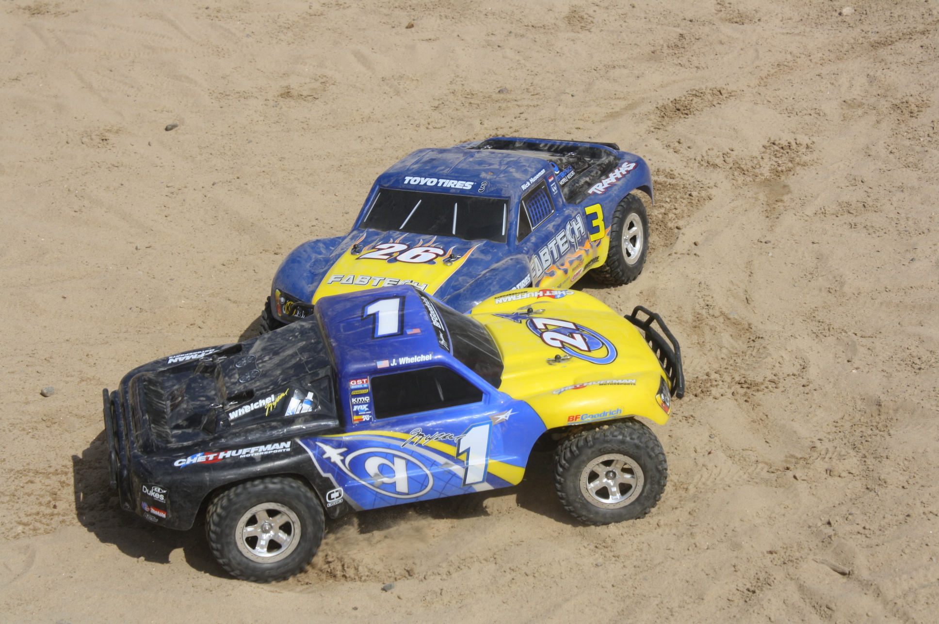 A demonstration of Traxxas two Slash vehicles at the 2009 Borg-Warner Off-Road World Championship race at the Crandon International Off-Road Raceway.